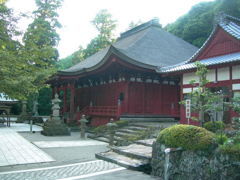 Kongoshoji temple on Mt. Asama Ise city Mie Prf. Japan.